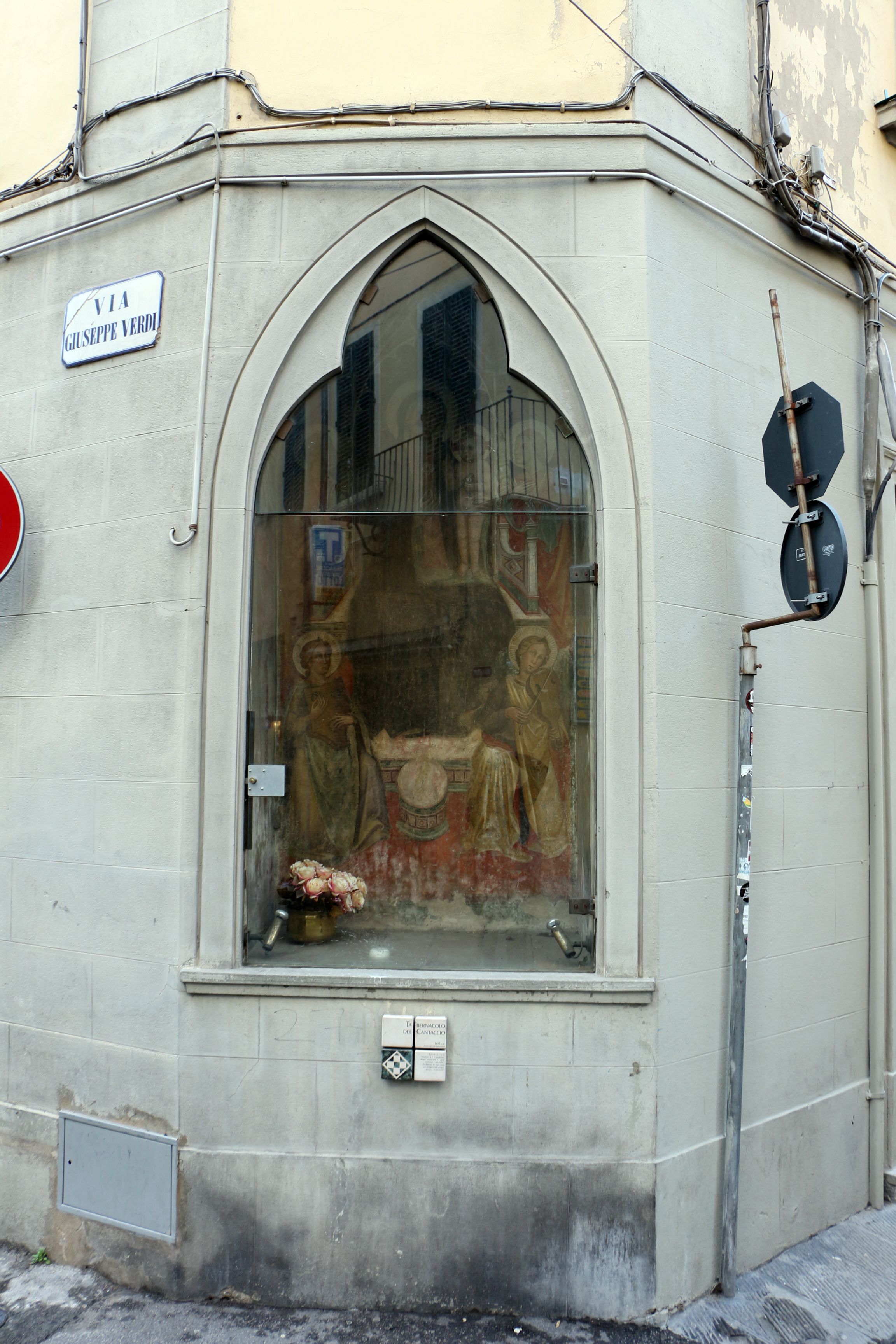 Prato, miscellany